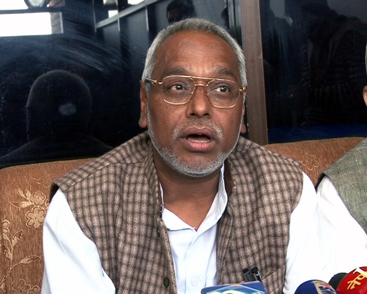 politician of nepal